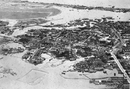 Part of Singapore town and harbour area, taken from an RAF aircraft shortly after the Japanese surrender.